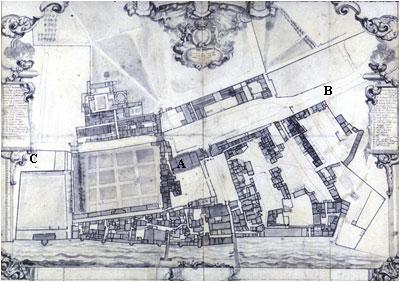 George Vertue's retrospective plan of Whitehall Palace as it had been in 1680. North is to the right. The Banqueting House is marked "A". The modern road Whitehall cuts clean through the site of the Palace from B to C.